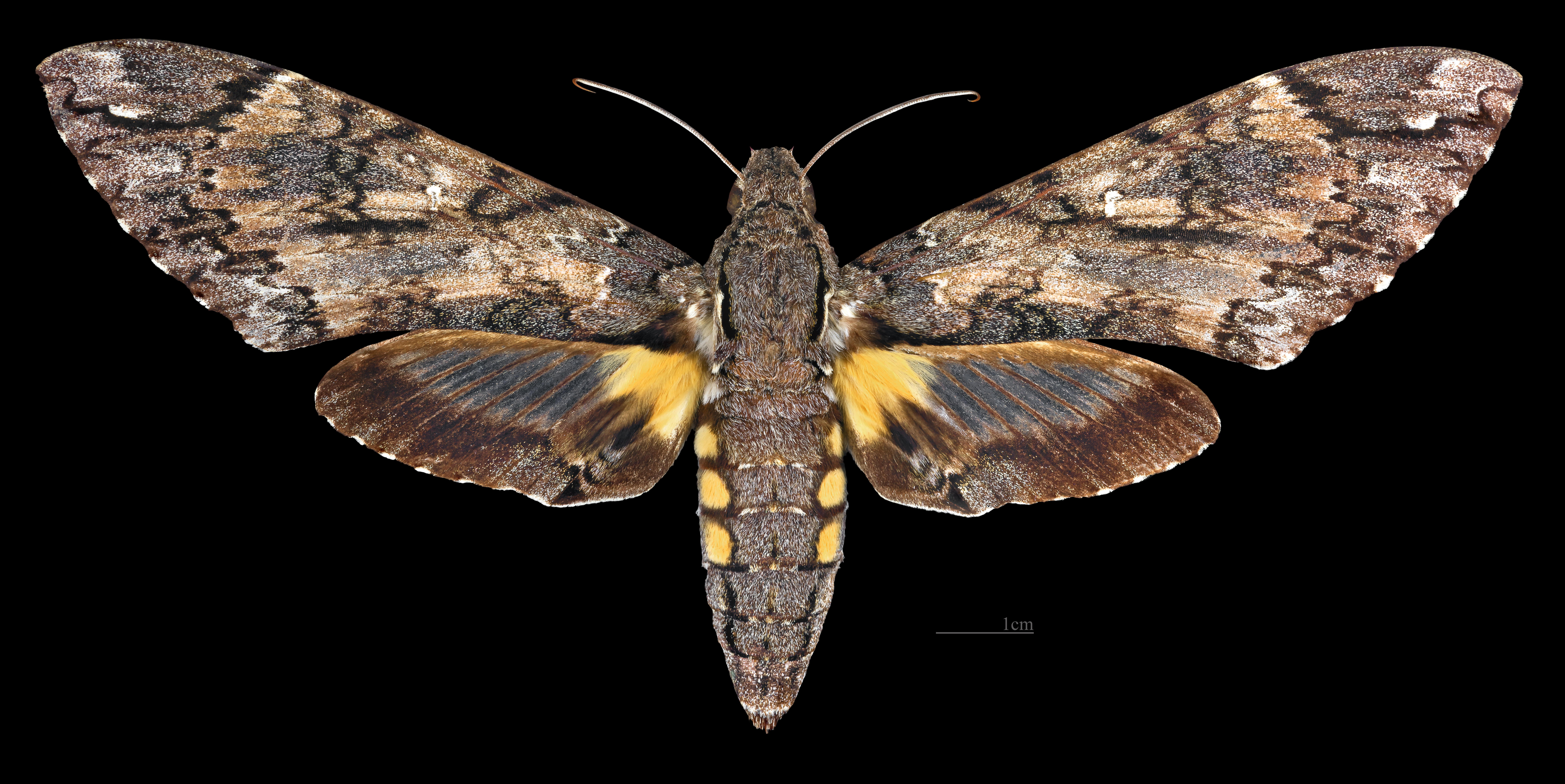 Cocytius antaeus - Dorsal side Collection of the Mathematician Laurent Schwartz